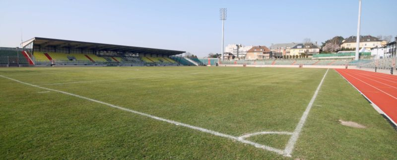 Stade Josy Barthel is a football stadium in Luxembourg, Luxembourg. It is currently the home of Luxembourg national football team.